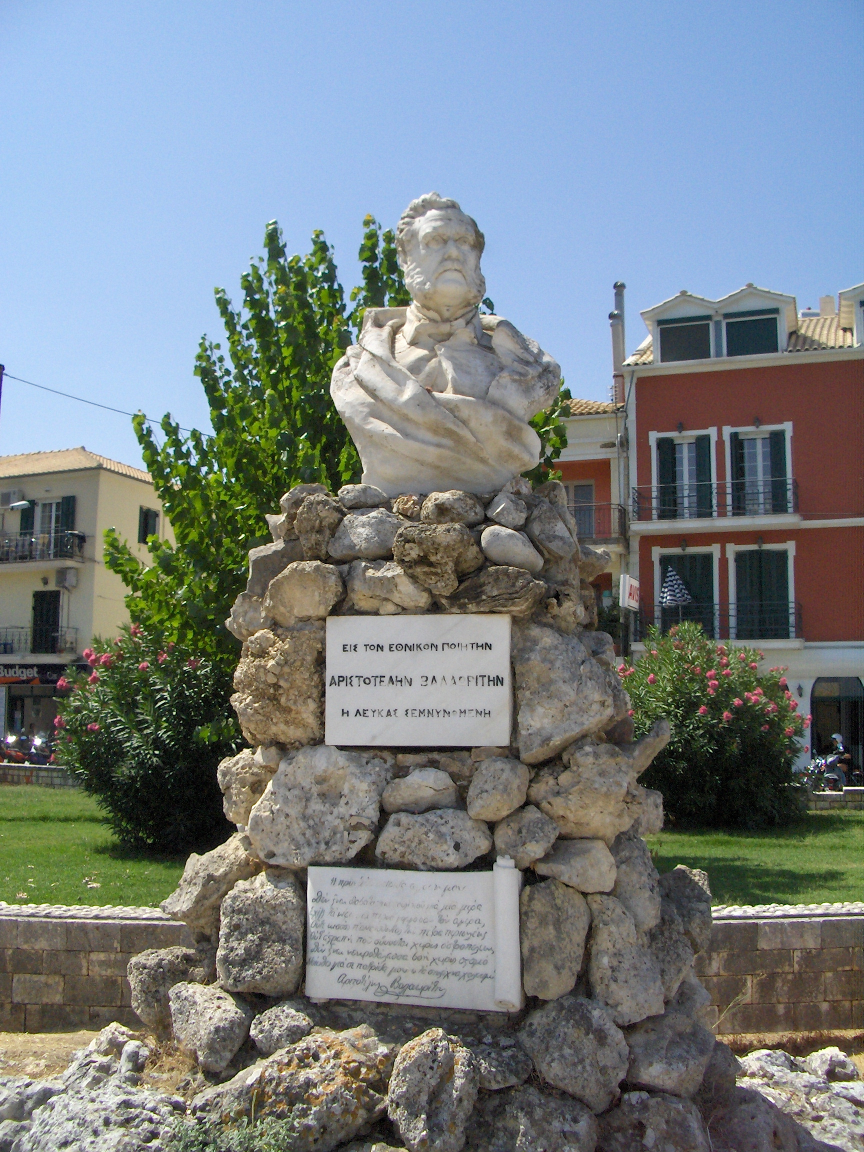 Aggelos Valaoritis, City of Lefkada, Greece